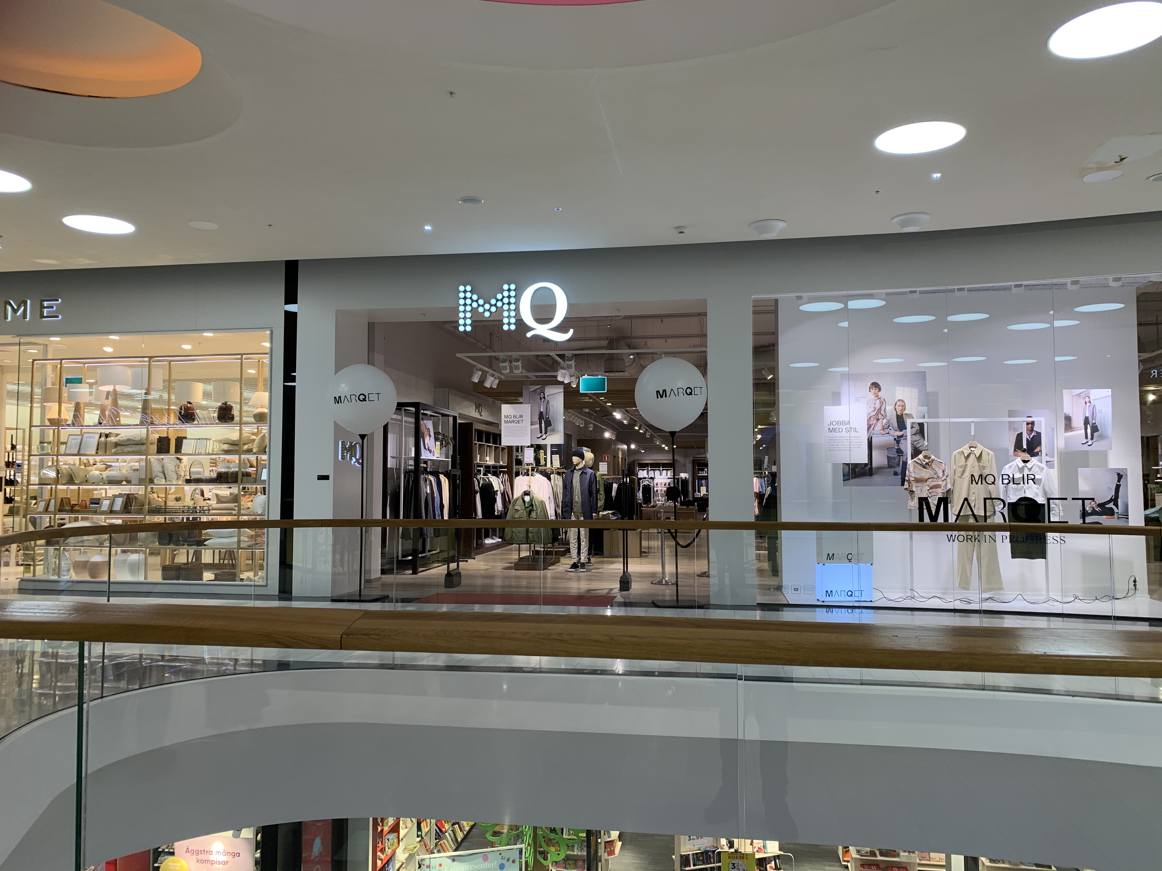 Marqet store in Mall of Scandinavia